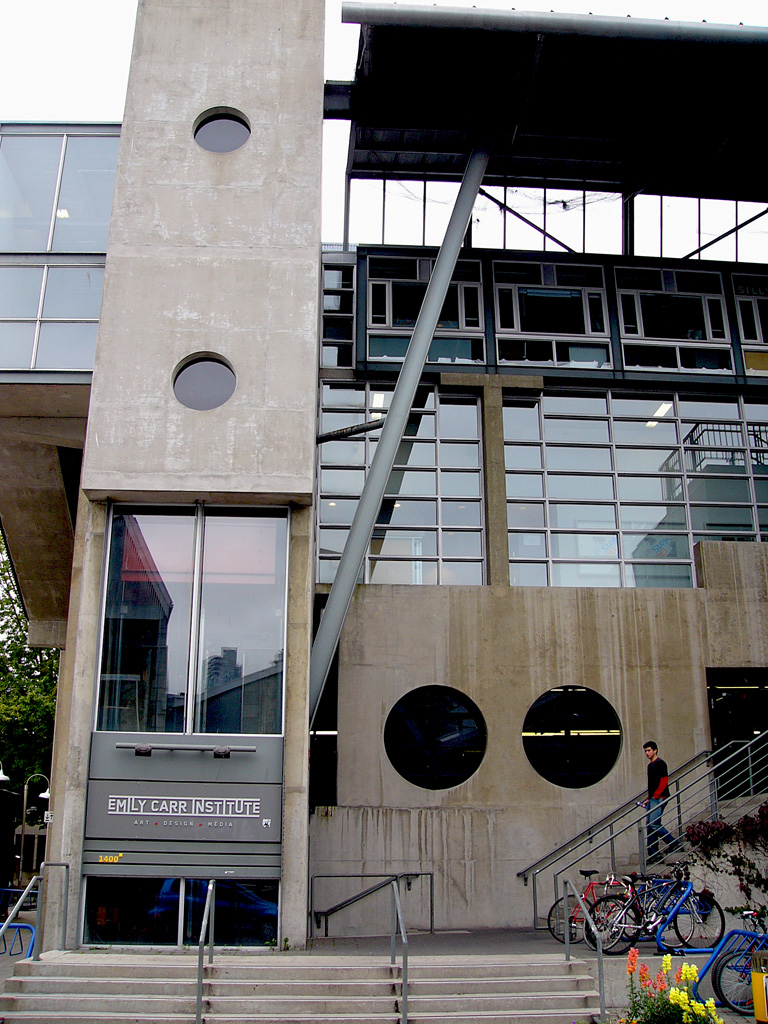 Emily Carr University. Entrance on Granville island.